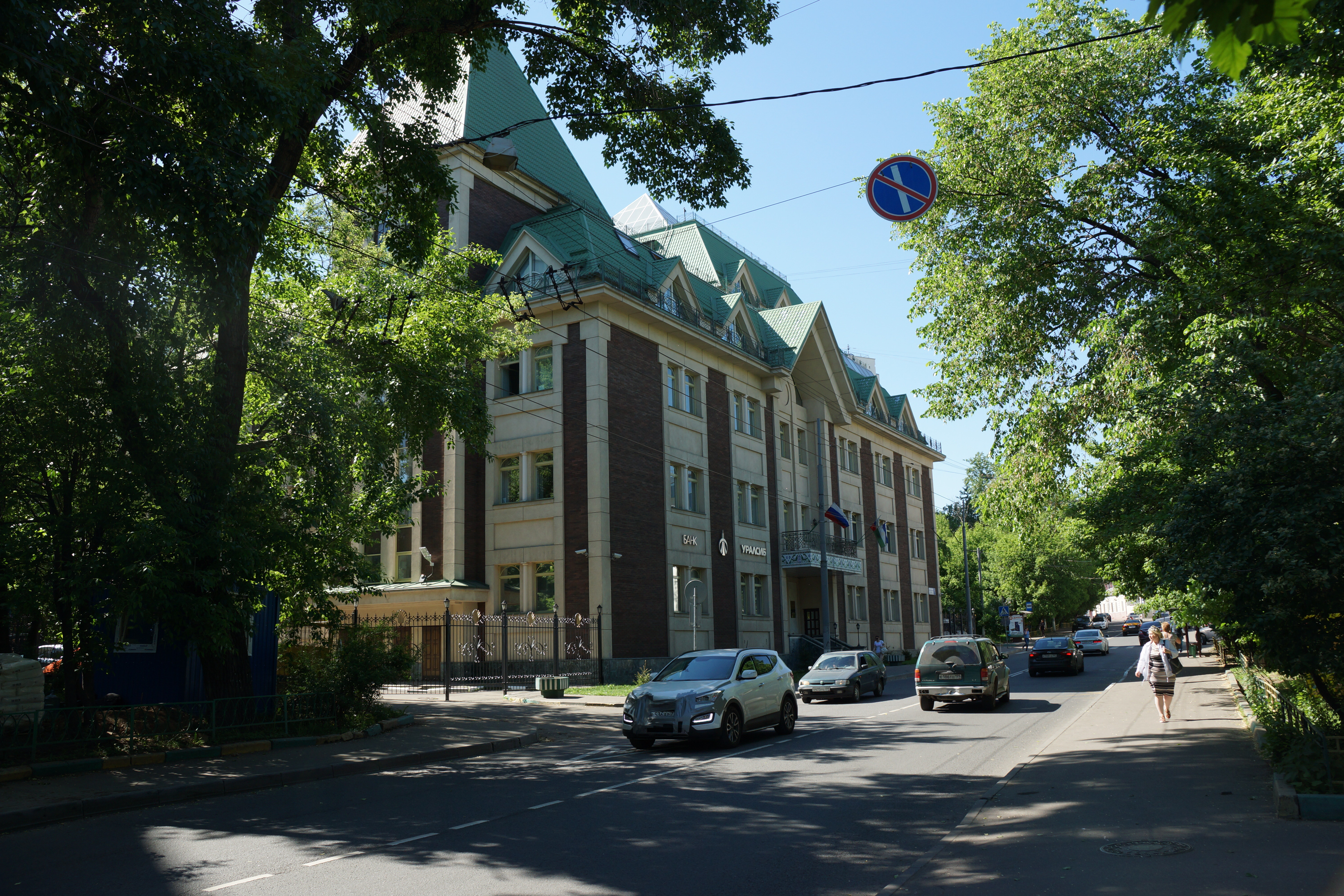 Dobroslobodskaya Street, 6, bld. 2, Moscow, Russia.